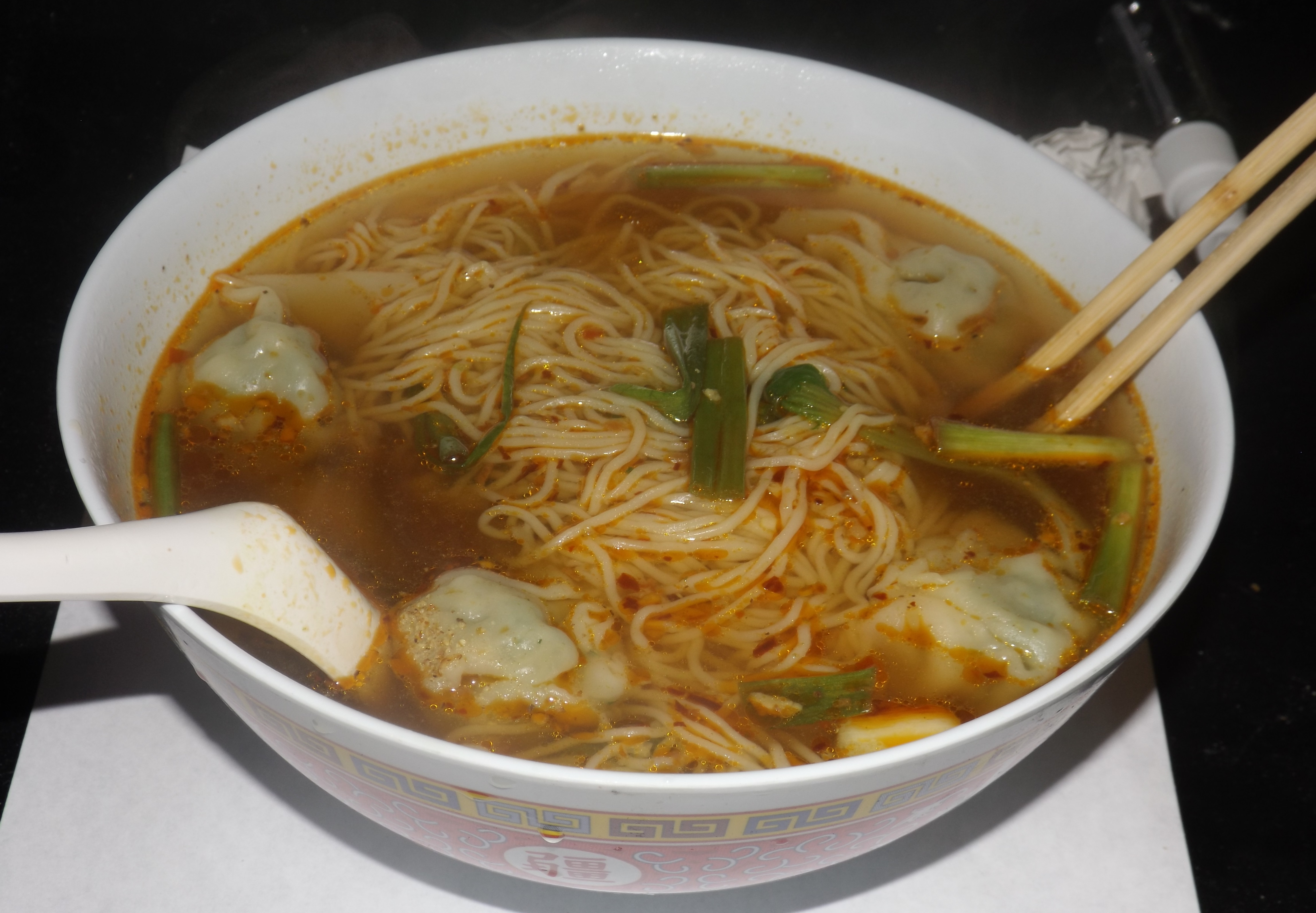 A bowl of Wonton Noodle Soup, prepared in Fresno California.